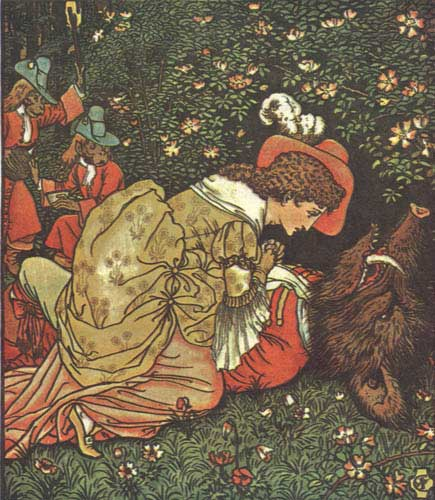 Illustration for Beauty and the Beast. London: George Routledge and Sons, 1874.